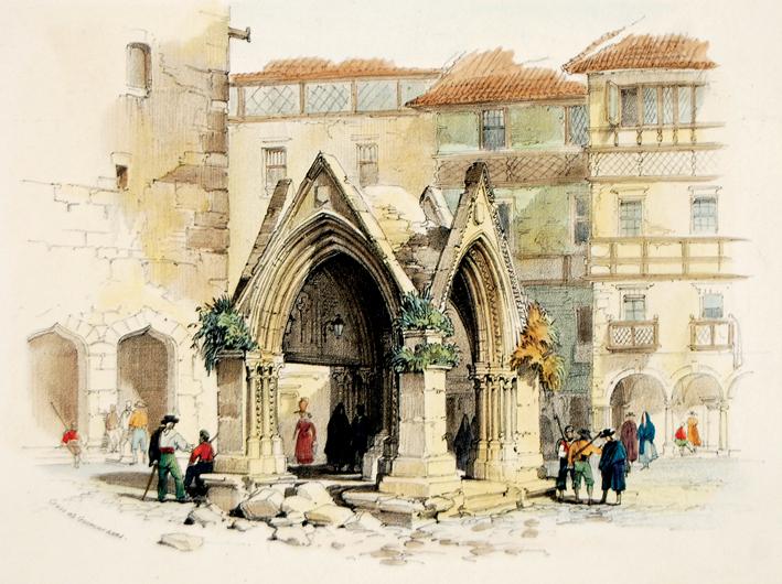 Oliveiras plaza, about 1839, Guimarães, Portugal.